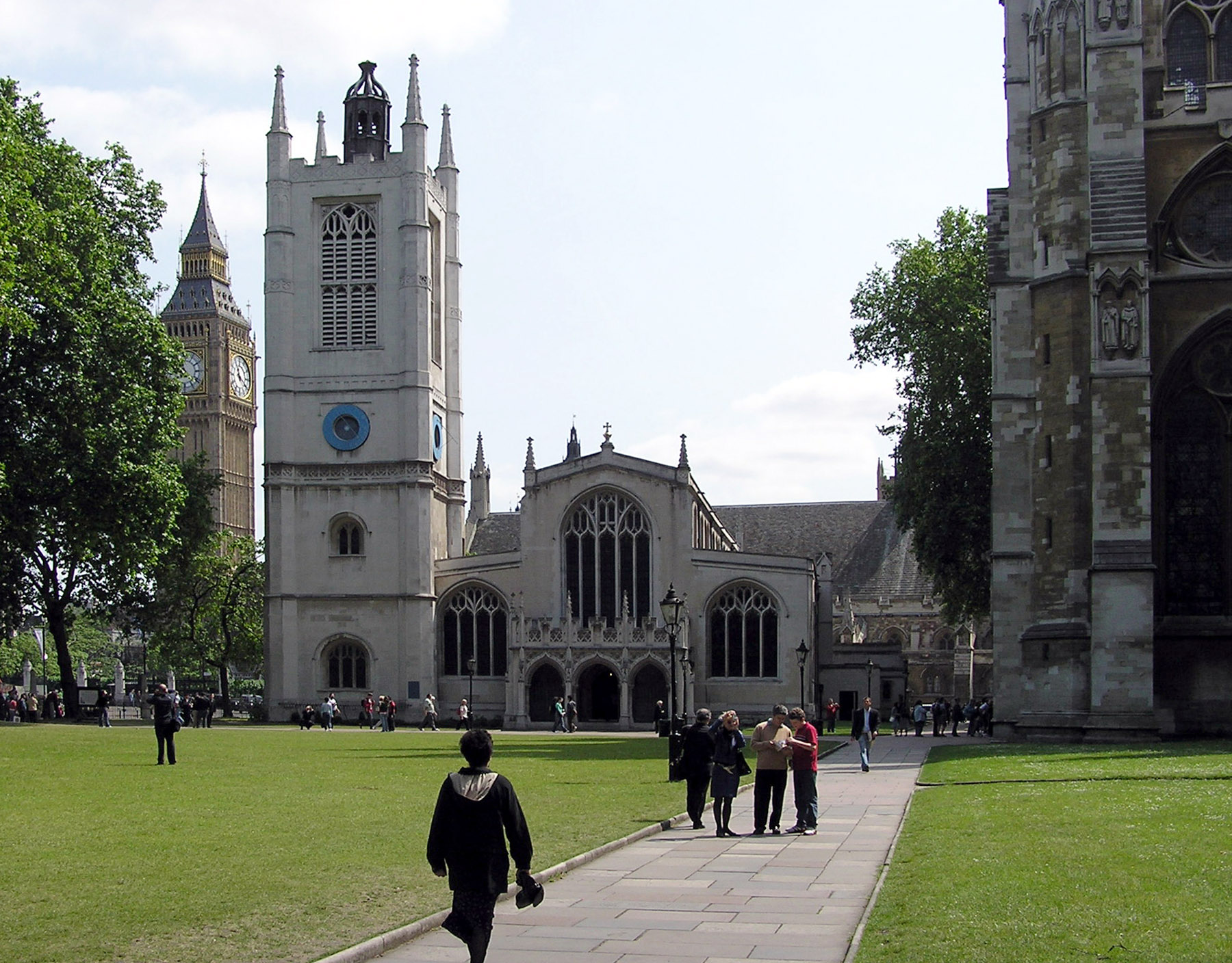 St. Margaret’s Church, Westminster, London, England. To the left is the Clock Tower of Big Ben, to the right is a corner of Westminster Abbey.